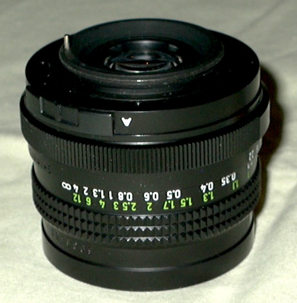 M42_Lens_Mount